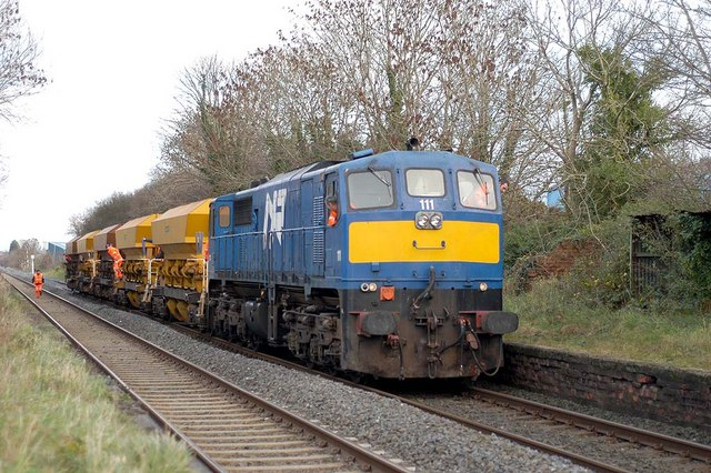 Ballasting the track at the Maze Station Ballasting the track at the disused Maze station. Maze Station opened 01-06-1895 and closed 01-07-1974.